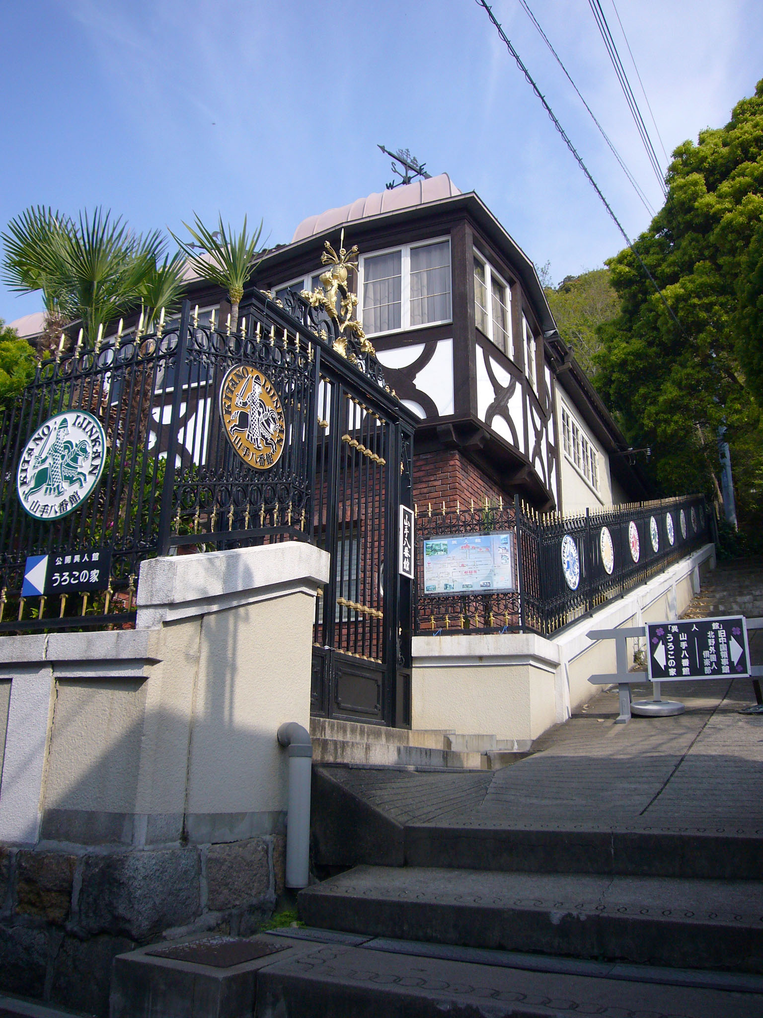 Yamate Hall of No.8 in Kobe, Hyogo prefecture, Japan